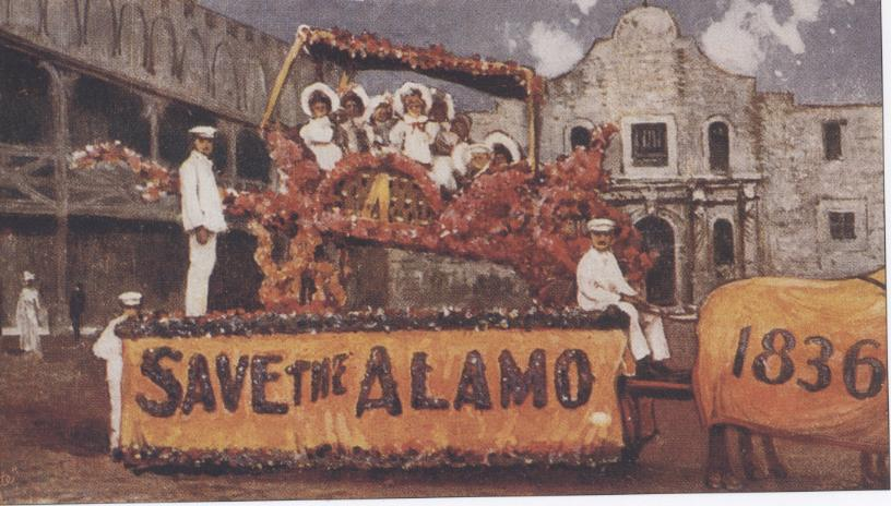 This postcard depicts a float in the "Battle of Flowers" parade as citizens tried to rally support for restoring the Alamo Mission in San Antonio. The postcard was reprinted in Frank Thompson's 2005 "The Alamo" (p 103)